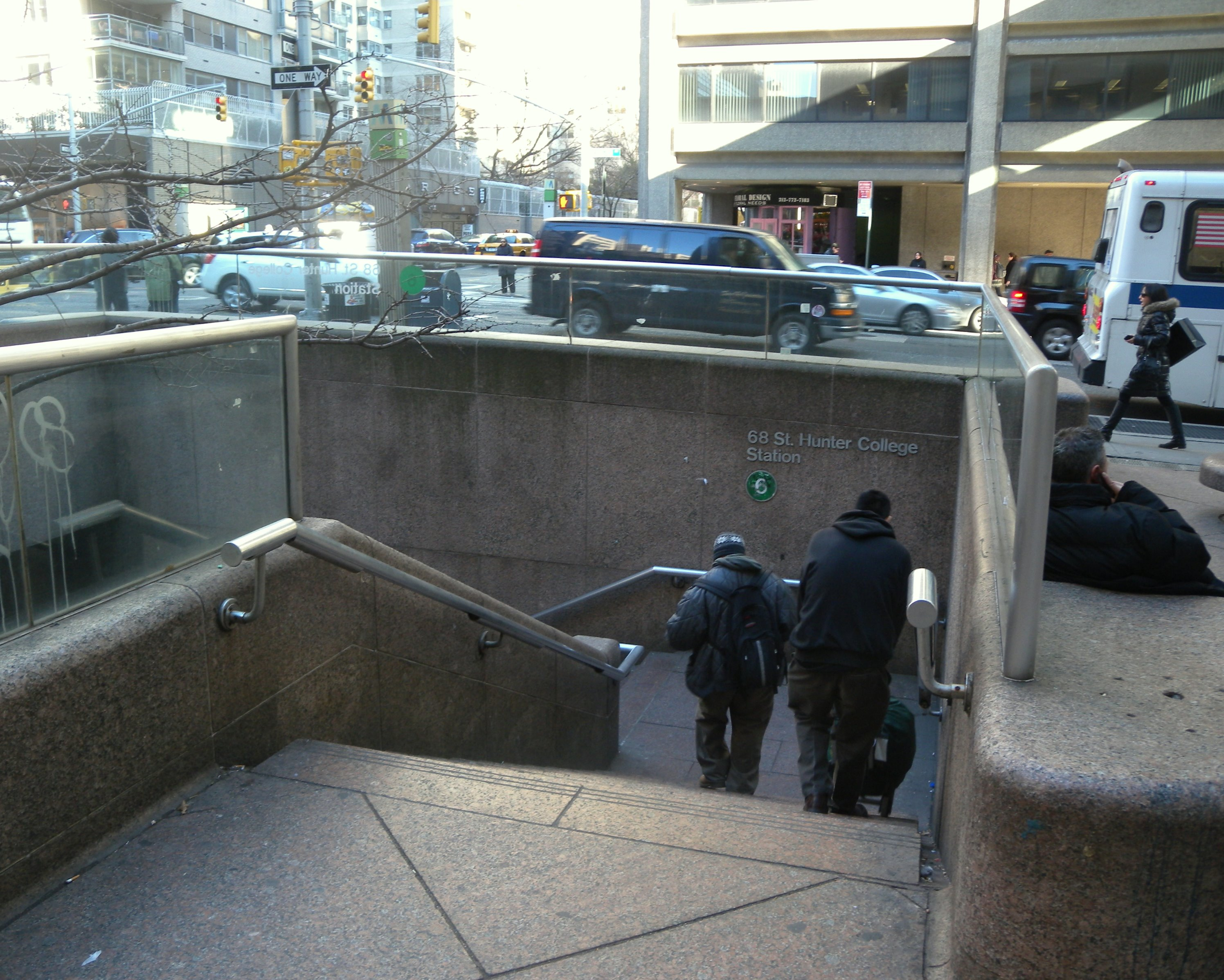 Looking east at subway stair on a sunny afternoon.